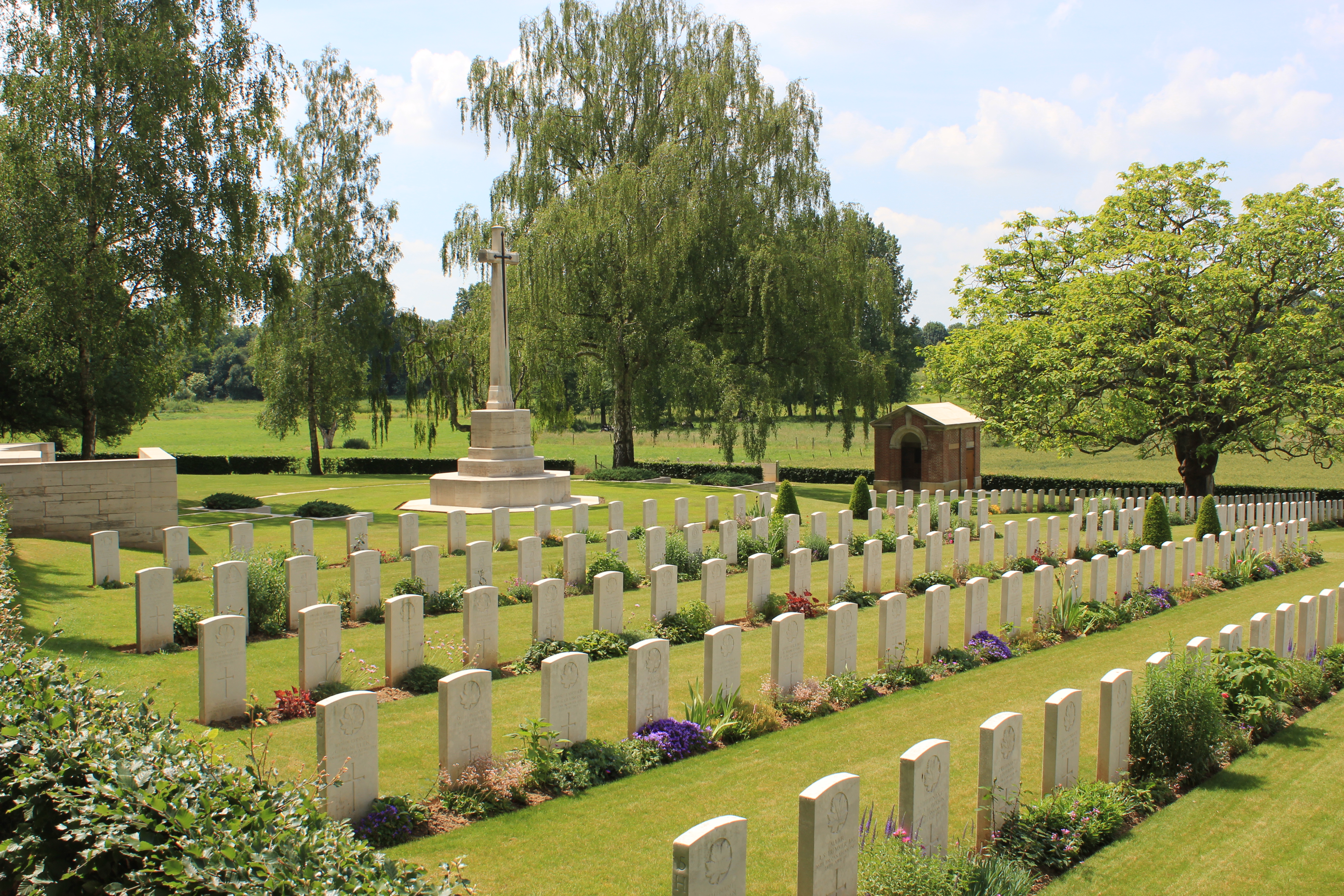 Probably Ecoivres Military Cemetery